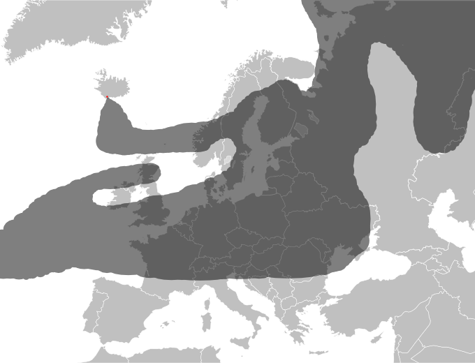 Approximate drawing of estimated ash cloud from the Eyjafjallajökull eruption as of 17 April 2010 at 18:00 UTC. Newer map: File:Eyjafjallajökull volcanic ash 19 April 2010.png Updates at